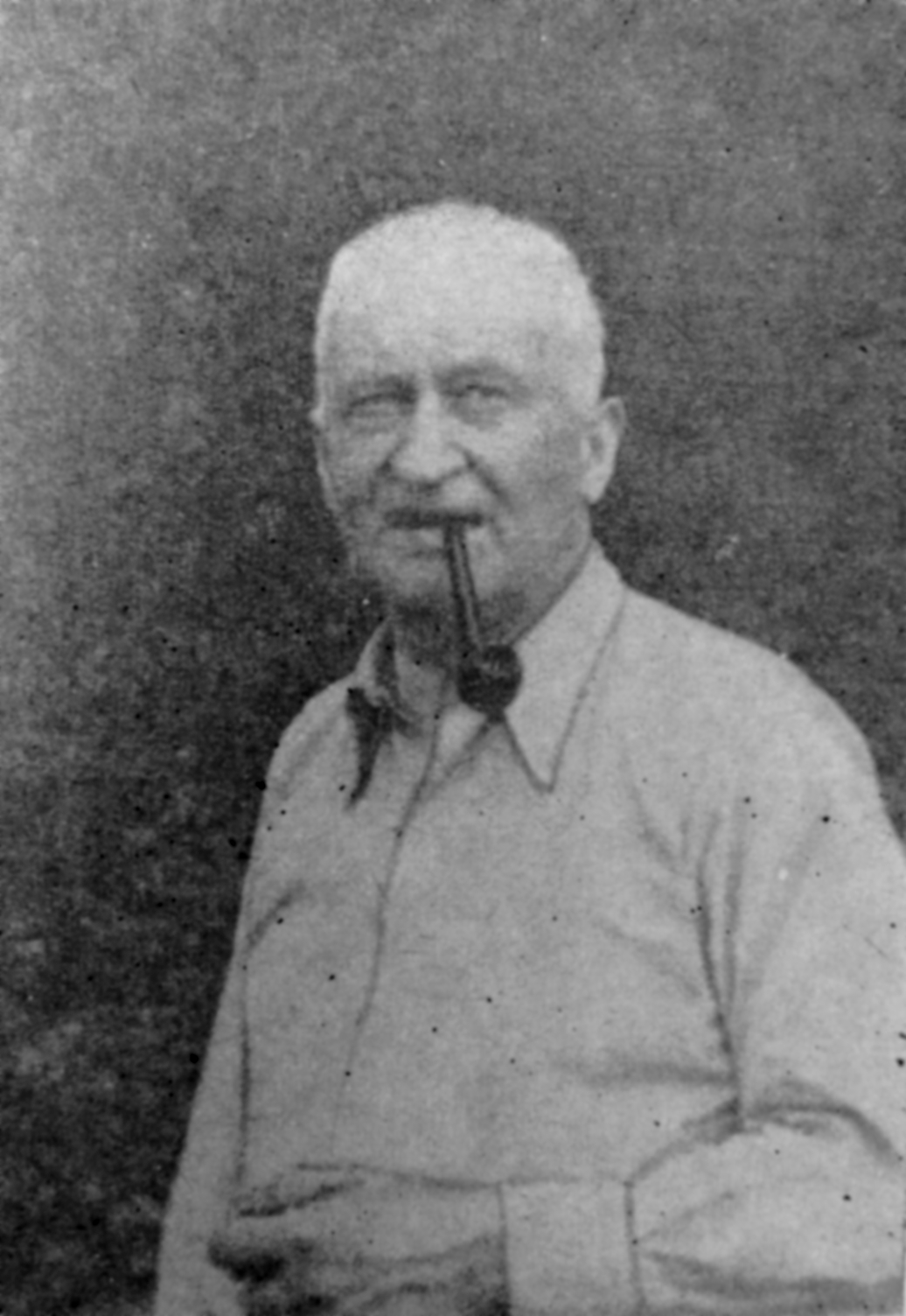 Jerzy Szaniawski (1886-1970) - a Polish playwright. A photo taken in Zegrzynek, in the summer of 1950.